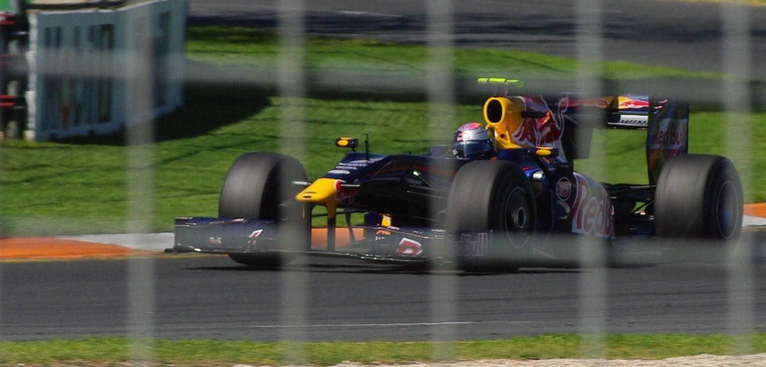 Sebastian Vettel at 2009 Australian Grand Prix, Melbourne, Australia